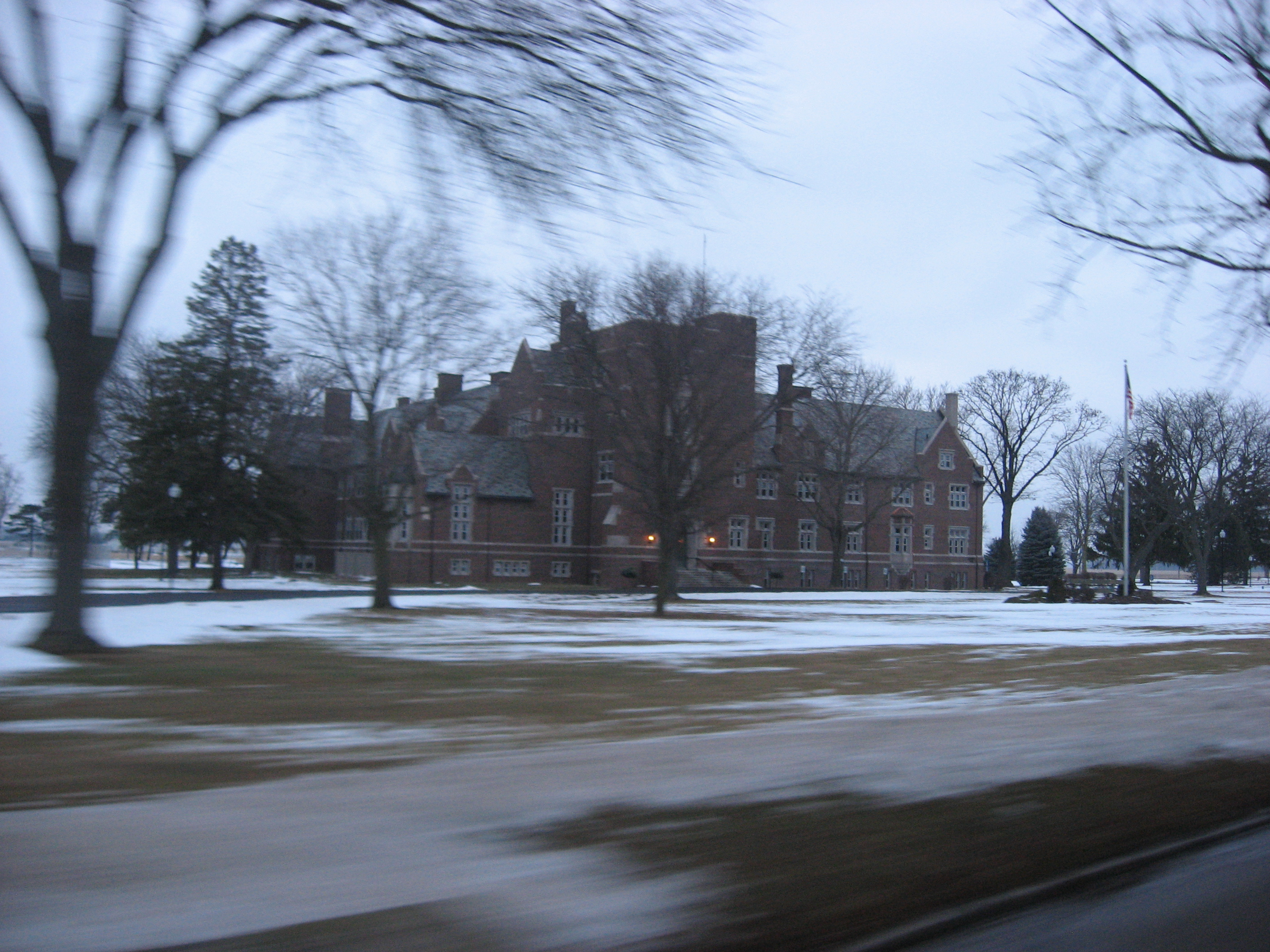 One of the buildings at the Marsh Foundation School, located at 1229 Lincoln Highway on the east side of Van Wert, Ohio, United States. The school complex is listed on the National Register of Historic Places.